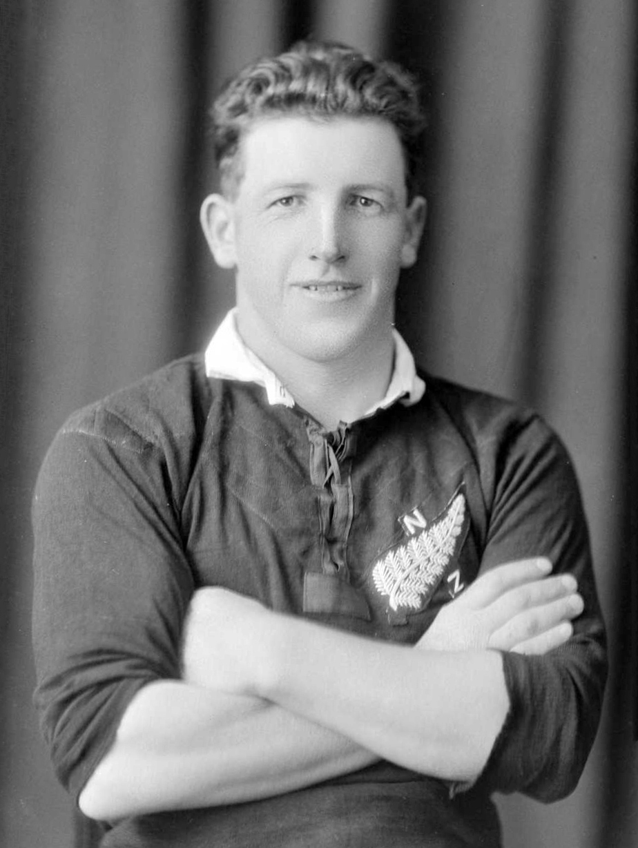 Photograph of All Black Archie McCormick, taken by Crown Studio Ltd of Wellington.